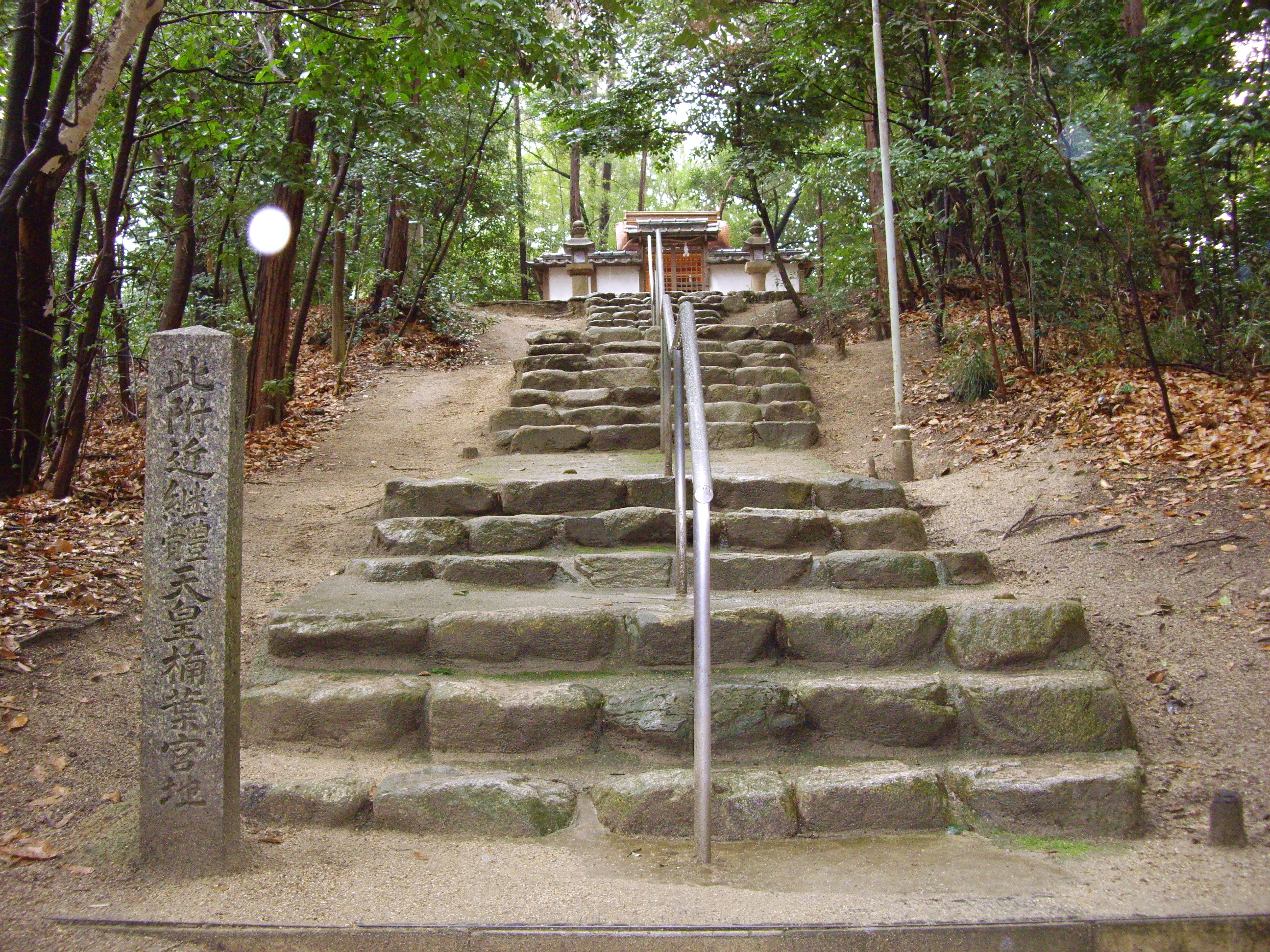 The legendary ruins of Emperor Keitai's Palace “Kusuba-no-Miya”, in Hirakata, Osaka Prefecture, Japan